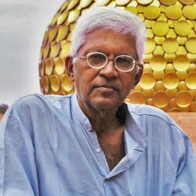 This photo was captured by me, during the visit to Auroville, Puducherry in 2009.